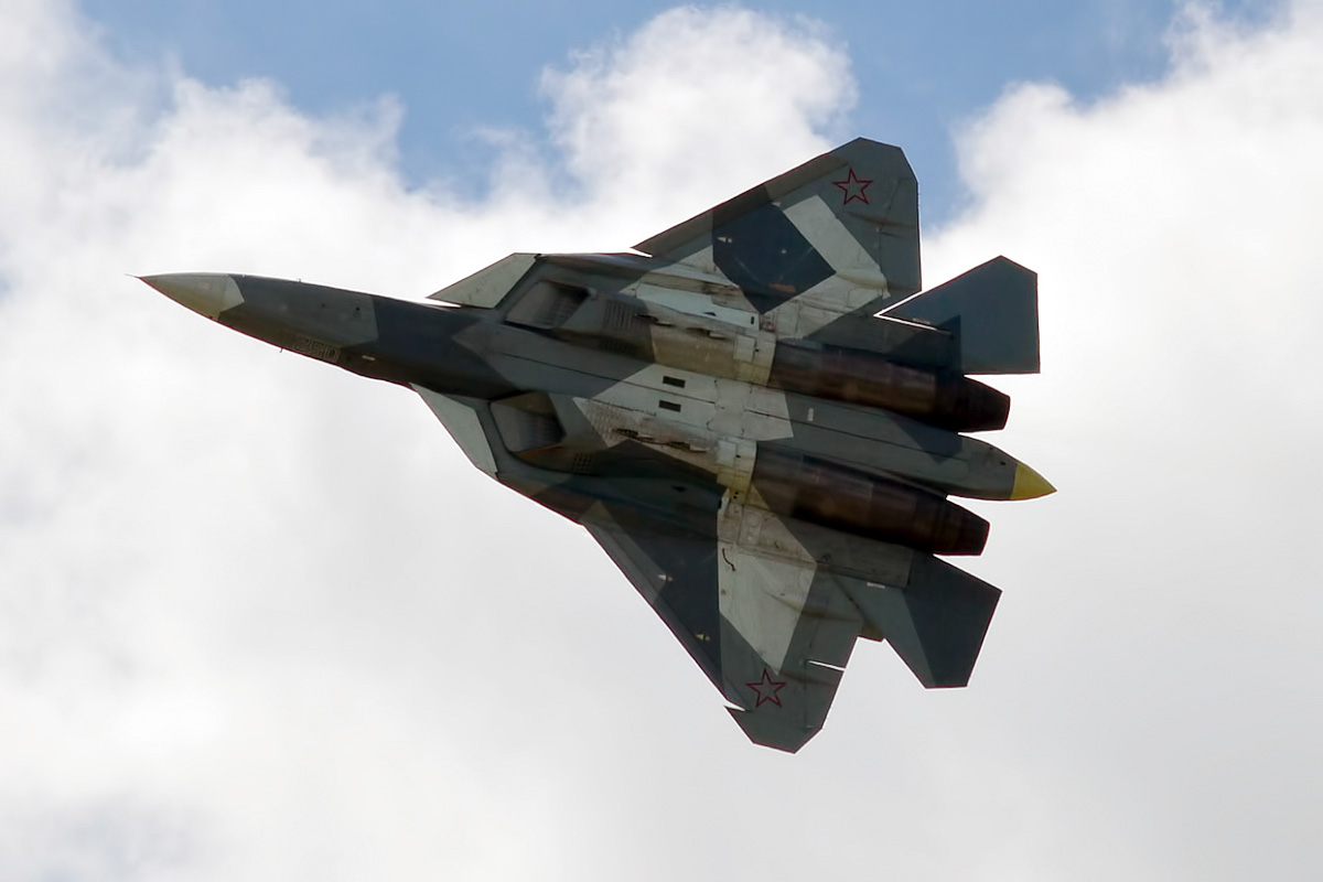 Russian Air Force, 052, Sukhoi Su-57